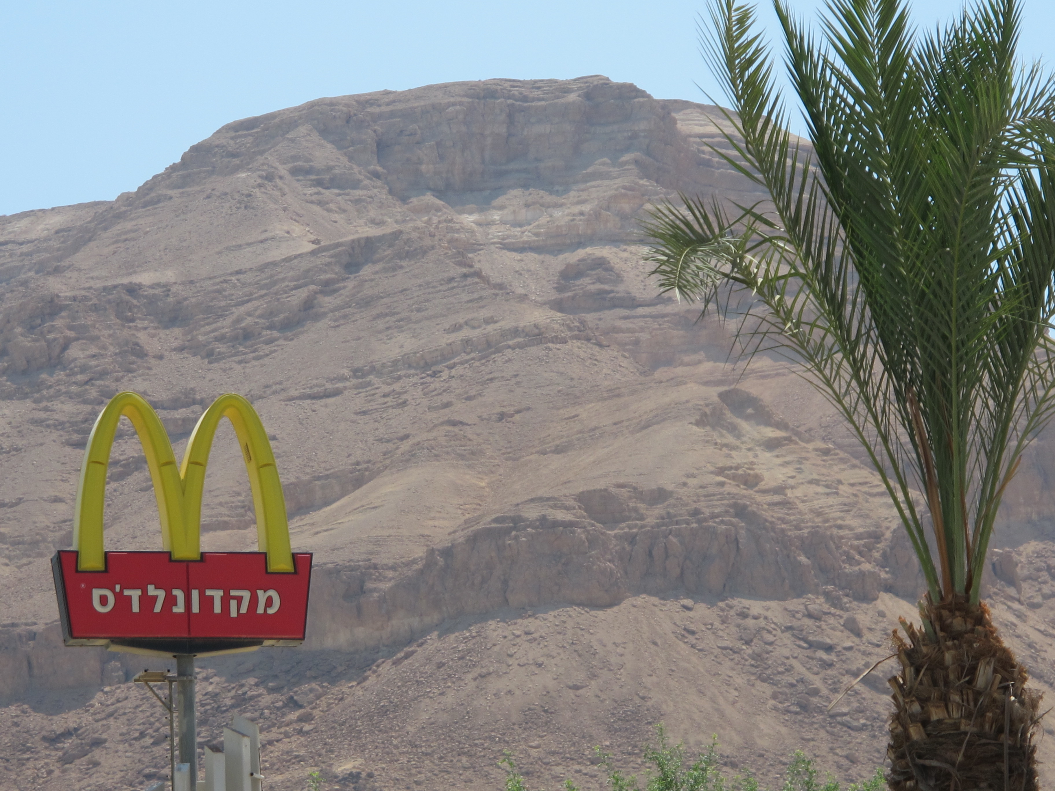 Globalization. McDonald's restaurant in the middle of the desert, near the Dead Sea, Israel